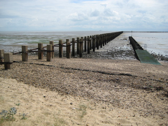 Shoebury Boom. Please see Julieanne's 311121 for a comprehensive explanation of the purpose and history of this former World War II defence structure. The smaller structure on the right is an outfall pipe with a warning beacon at its seaward end.